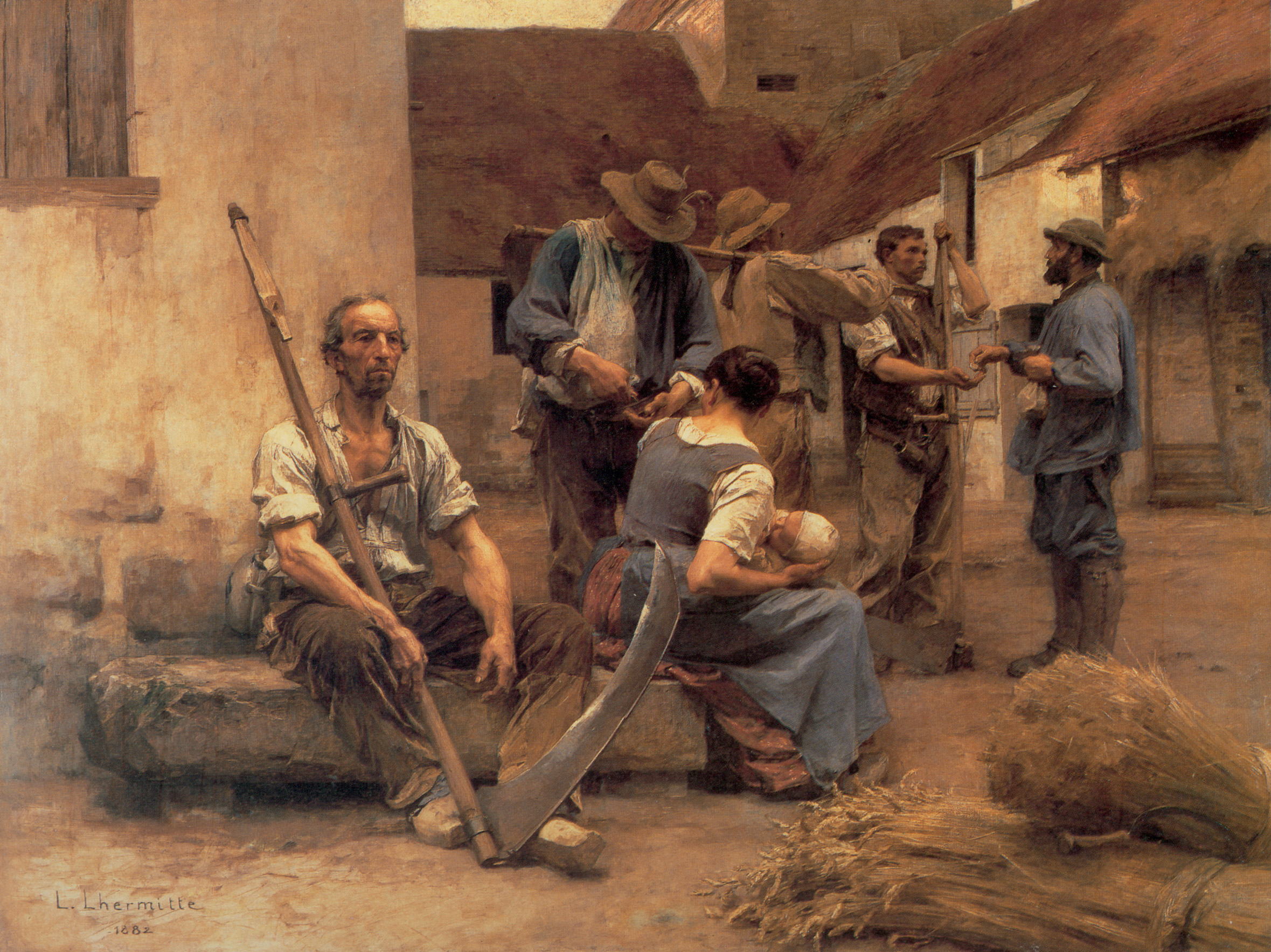 Paying the Harvesters